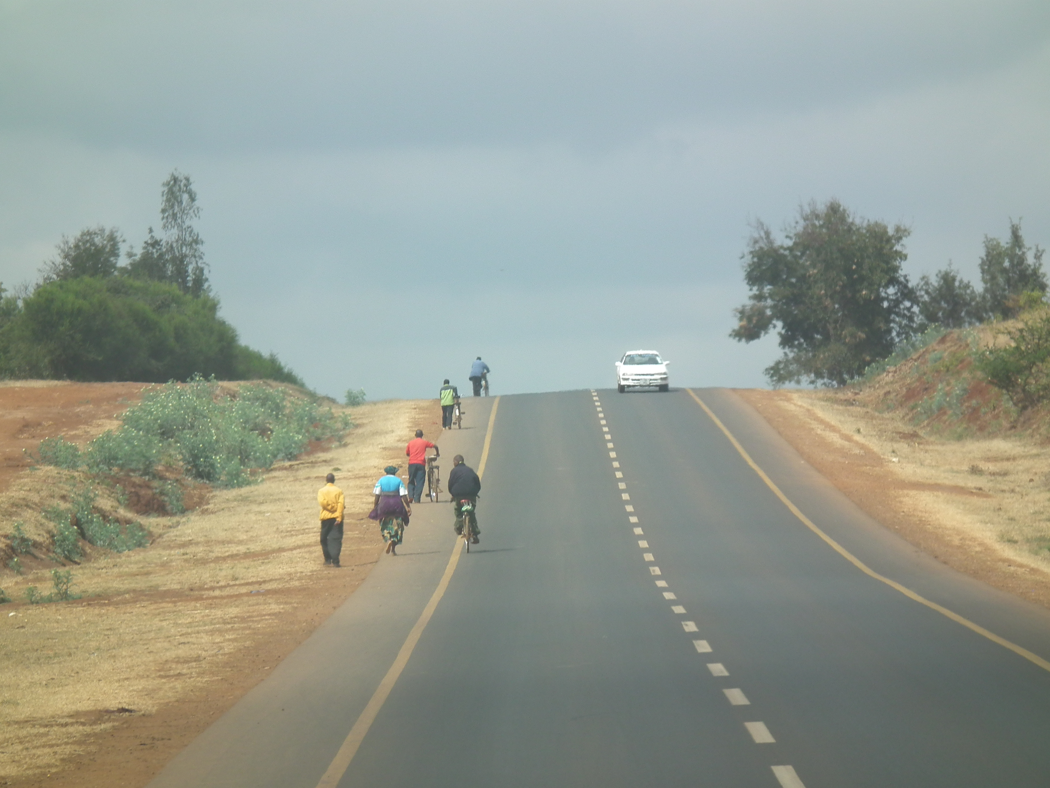 B144 road, Tanzania